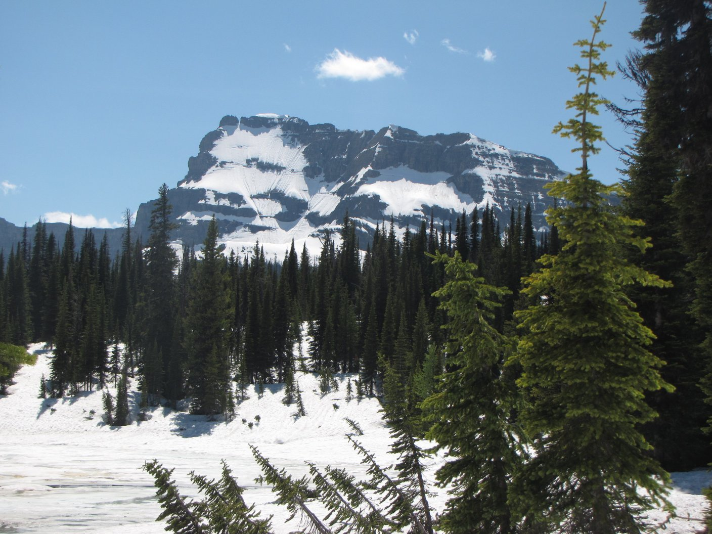 Mount Custer — of the Livingston Range, in Glacier National Park, Montana. Seen from Summit Lake in Alberta.